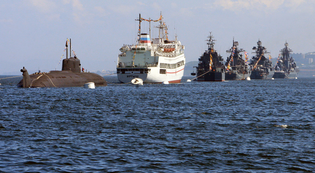 “Rehearsing naval parade at the Pacific fleet's chief base in Vladivostok”. Nulear-powered submarine (foreground) participating in the naval parade rehearsal at the Pacific fleet's chief base in Vladivostok.